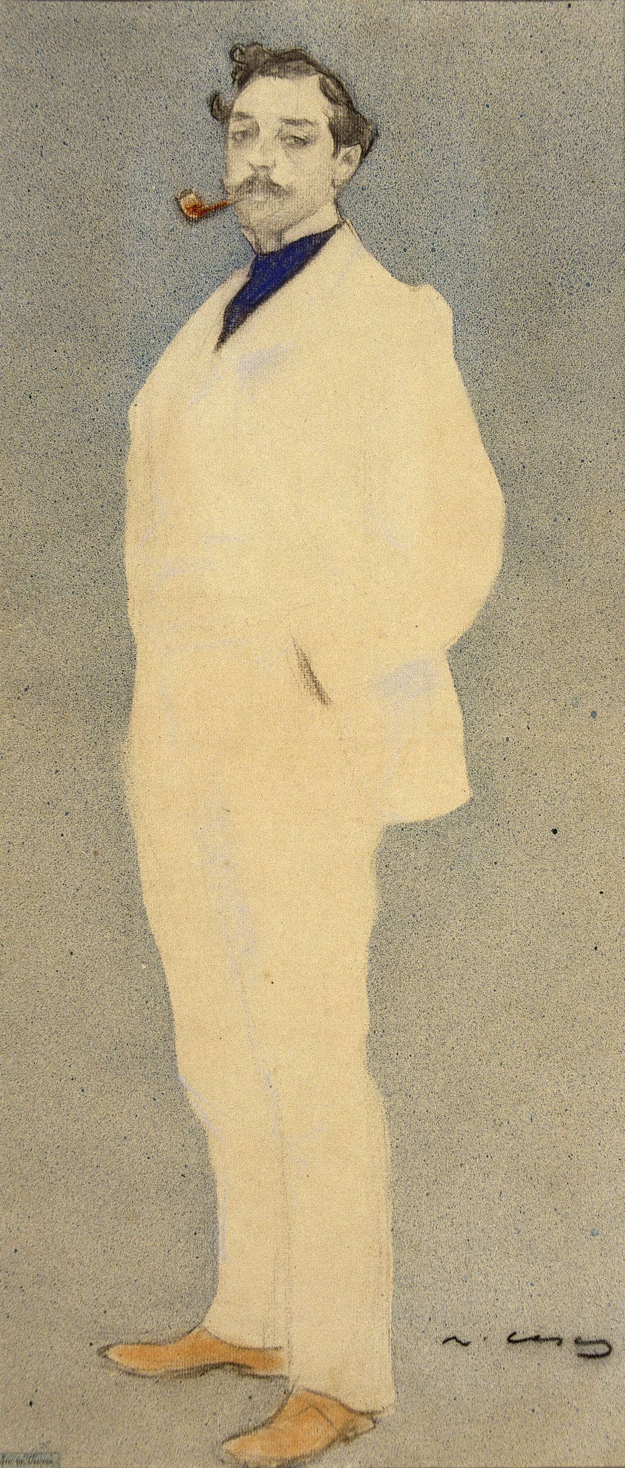 Portrait by Ramon Casas conserved at MNAC in Barcelona.